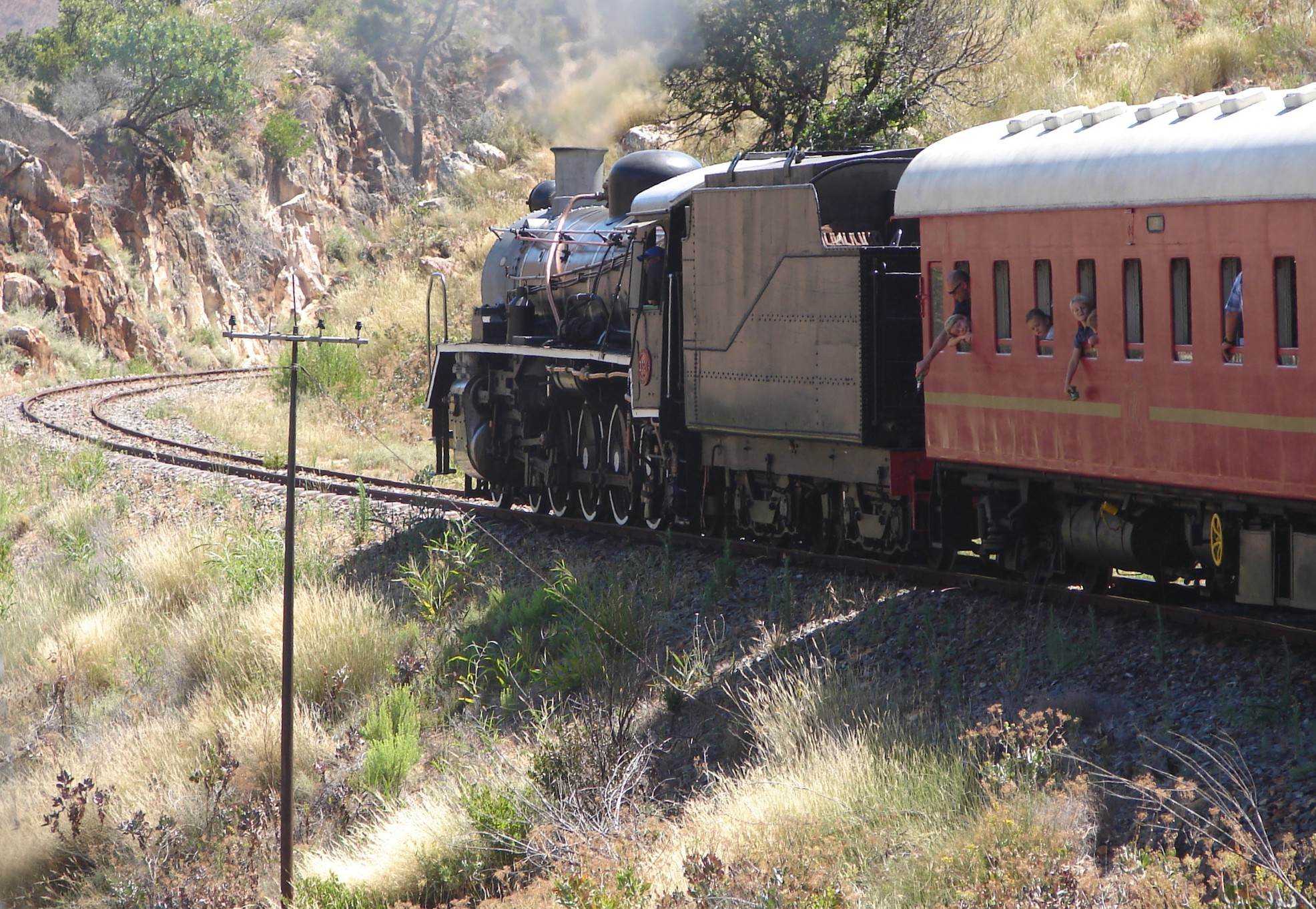 SAR Class 19D no. 3321 (4-8-2), converted to oil-burningBuilder's Number: NBL 26041Tender: Type MR, with the coal bunker converted to an oil bunkerLocation: Michell's Pass between Ceres and Wolseley, Western Cape